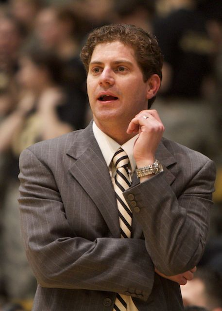 The men's basketball team fell to their Patriot League rivals Navy 85-81 Jan. 22, in front of a sold out crowd at Christl Arena. Photo by